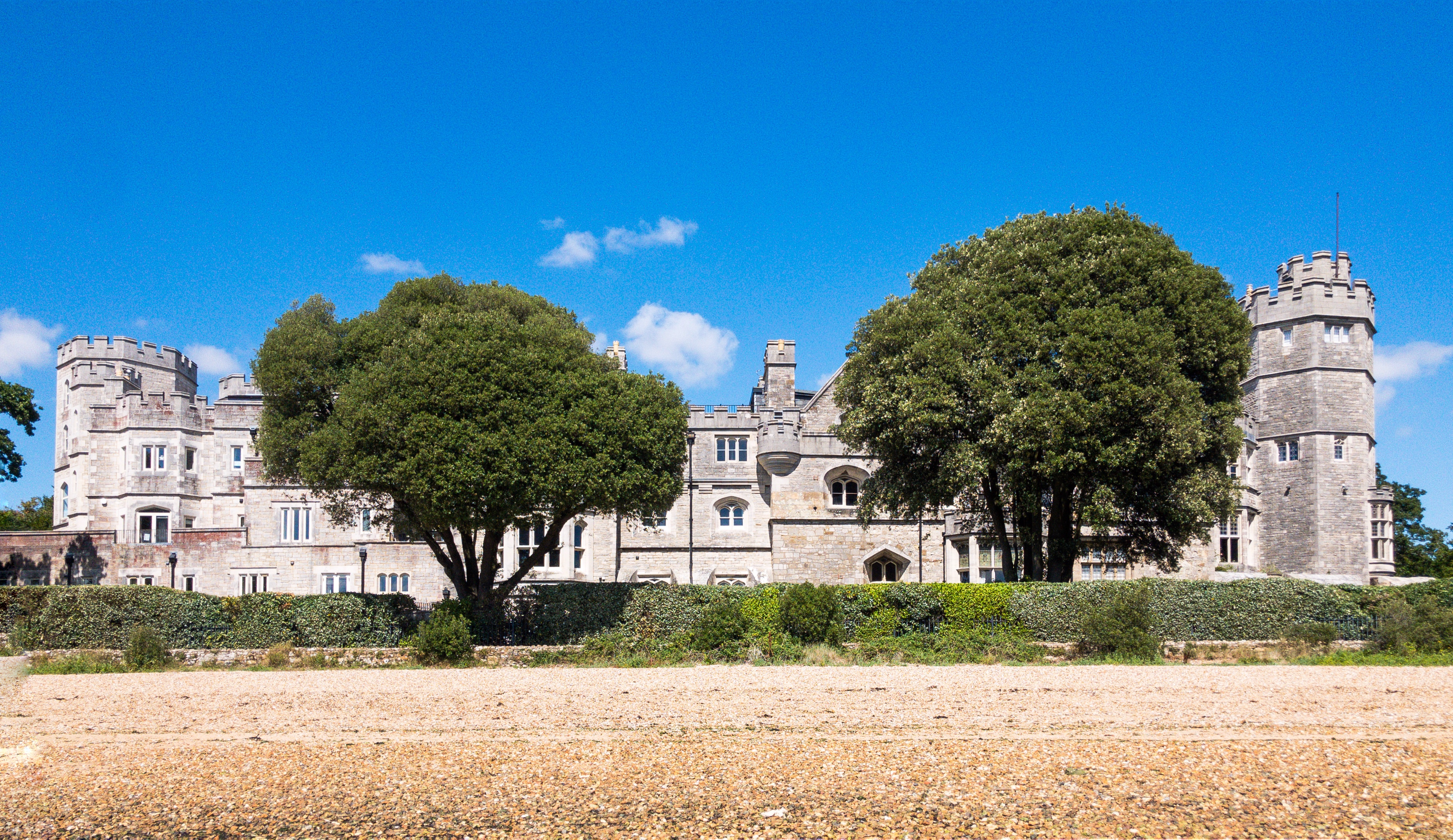 Front view of Netley Castle from the shore